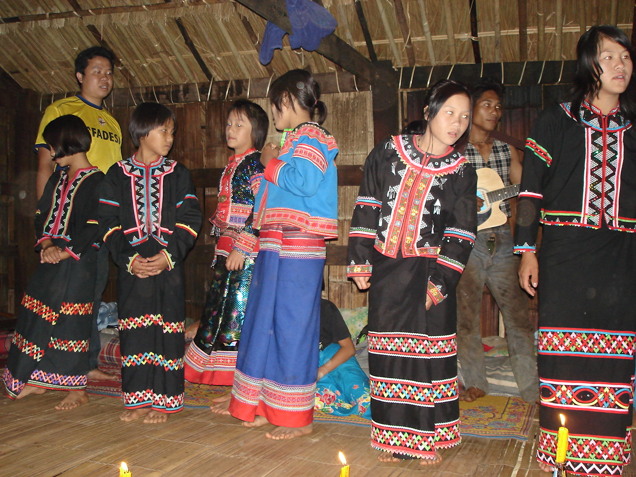 Lahu girls in traditional dresses